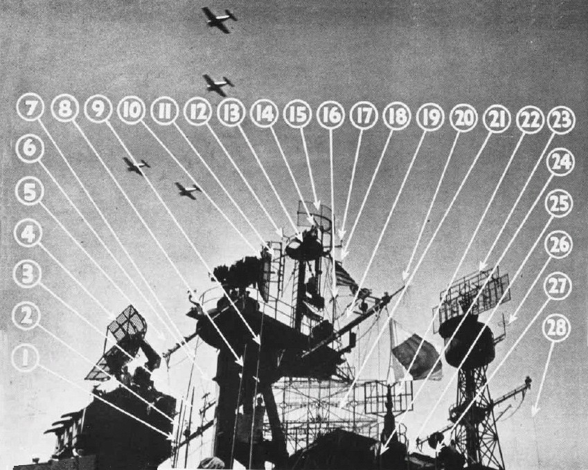 A picture of the antenna arrangement on the U.S. aircraft carrier USS Lexington (CV-16) in 1944/45. Following antennae can be identified: 1-3 , 5-9, 11, 14, 16-20, 24, 25, 28, 29: various radio communication aerials; 4: Mk 4 fire control radar on Mk 37 director; 10: SM radar; 11: SO IFF antenna on the SM radar; 12: CPN-6 radar beacon; 13: SG surface-search radar; 15: YE homing beacon; 21: SK-1 air-search radar with BT-5 IFF; 22: homing beacon; 23: SC radar with BT-5 IFF; 26: ABK-7 identification radar. Four Grumman F6F Hellcat fighters fly over Lexington.